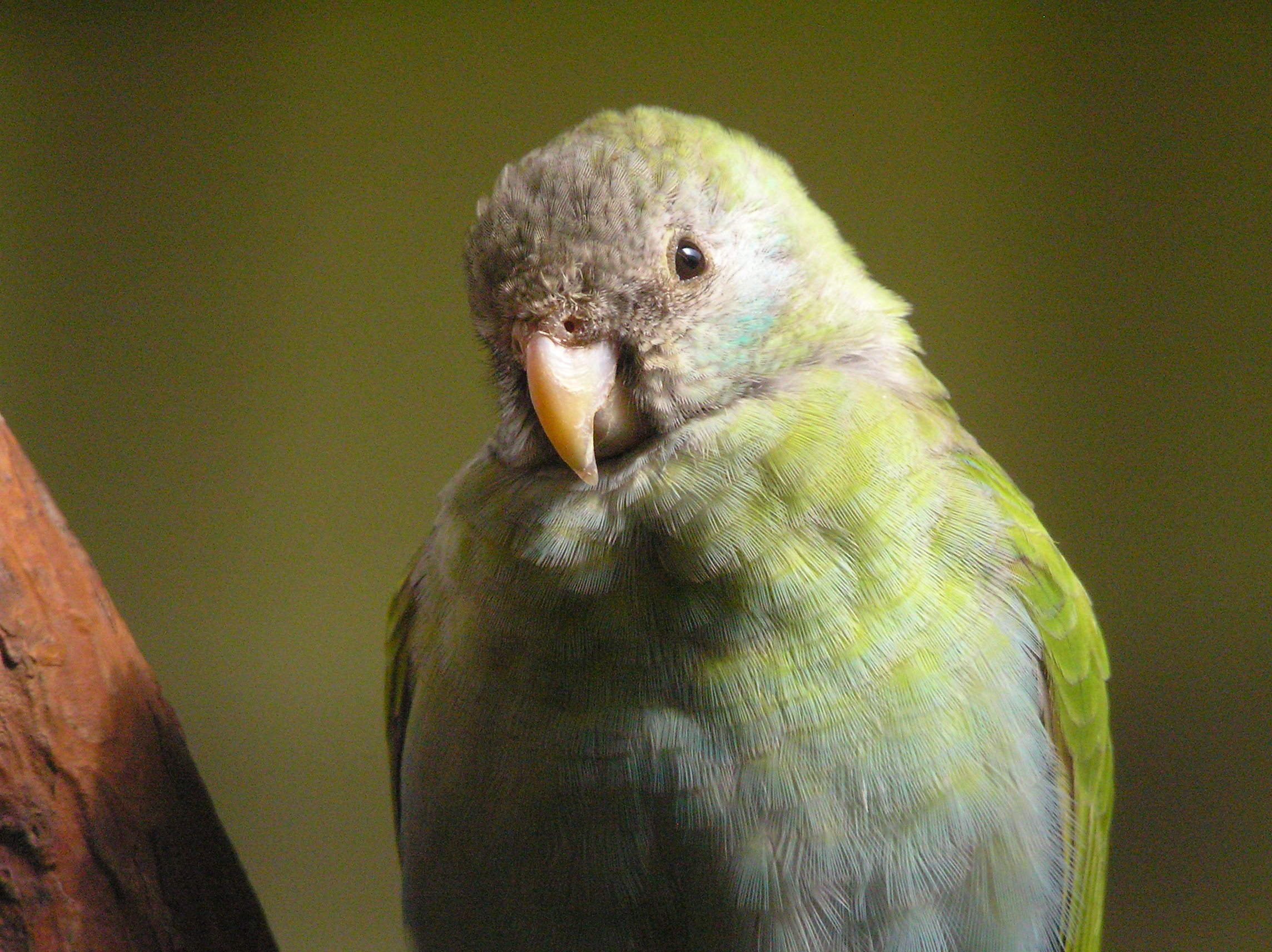 A female Hooded Parrot at Burger's Zoo En Safari, Arnhem, Netherlands.